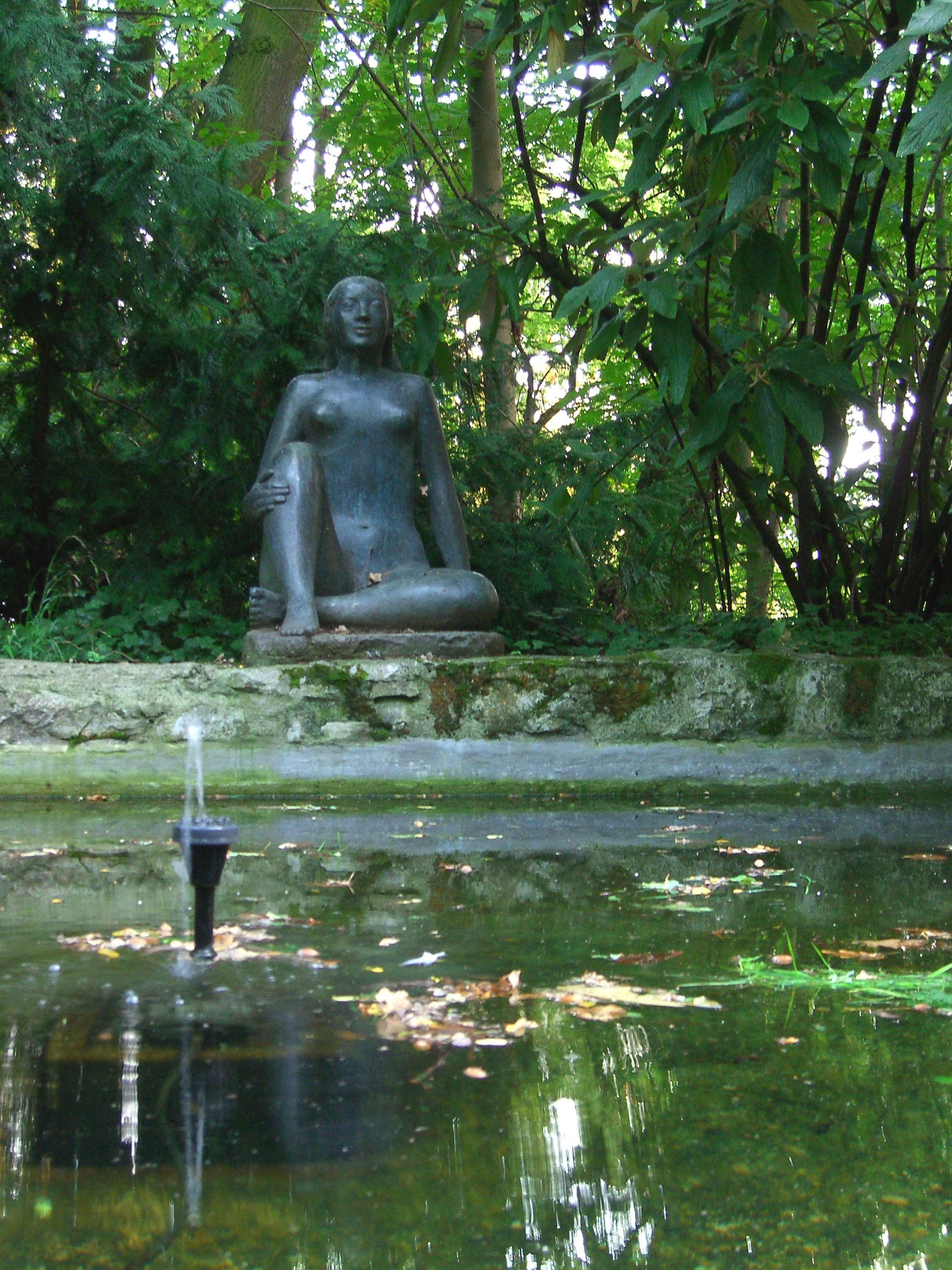 Mermaid at a fountain by Heinrich Kirchner at the Burgberggarten in Erlangen, Germany.